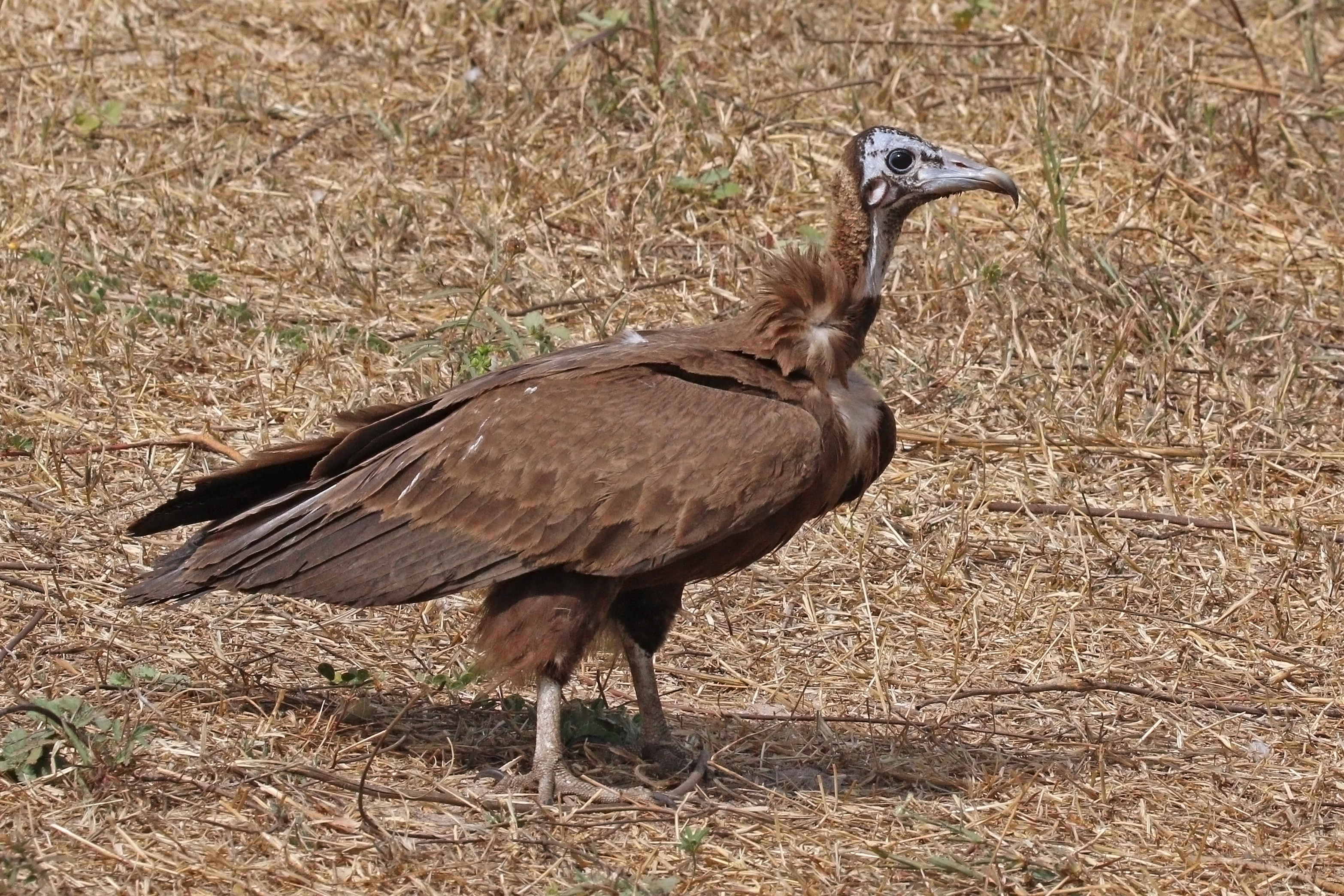 Hooded vulture (Necrosyrtes monachus) juvenile, Gambia